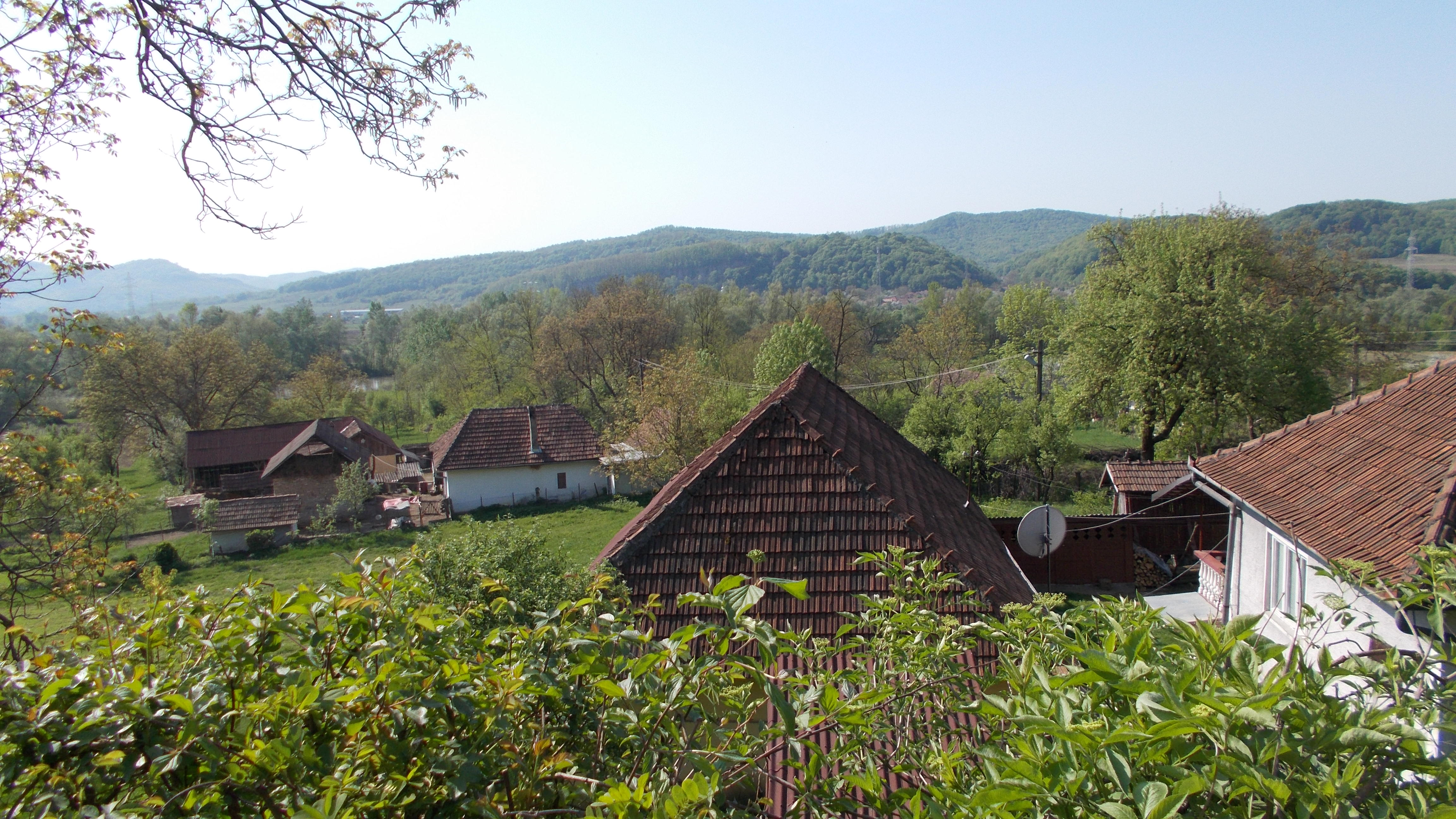 Turbuța Village, Sălaj County, Romania